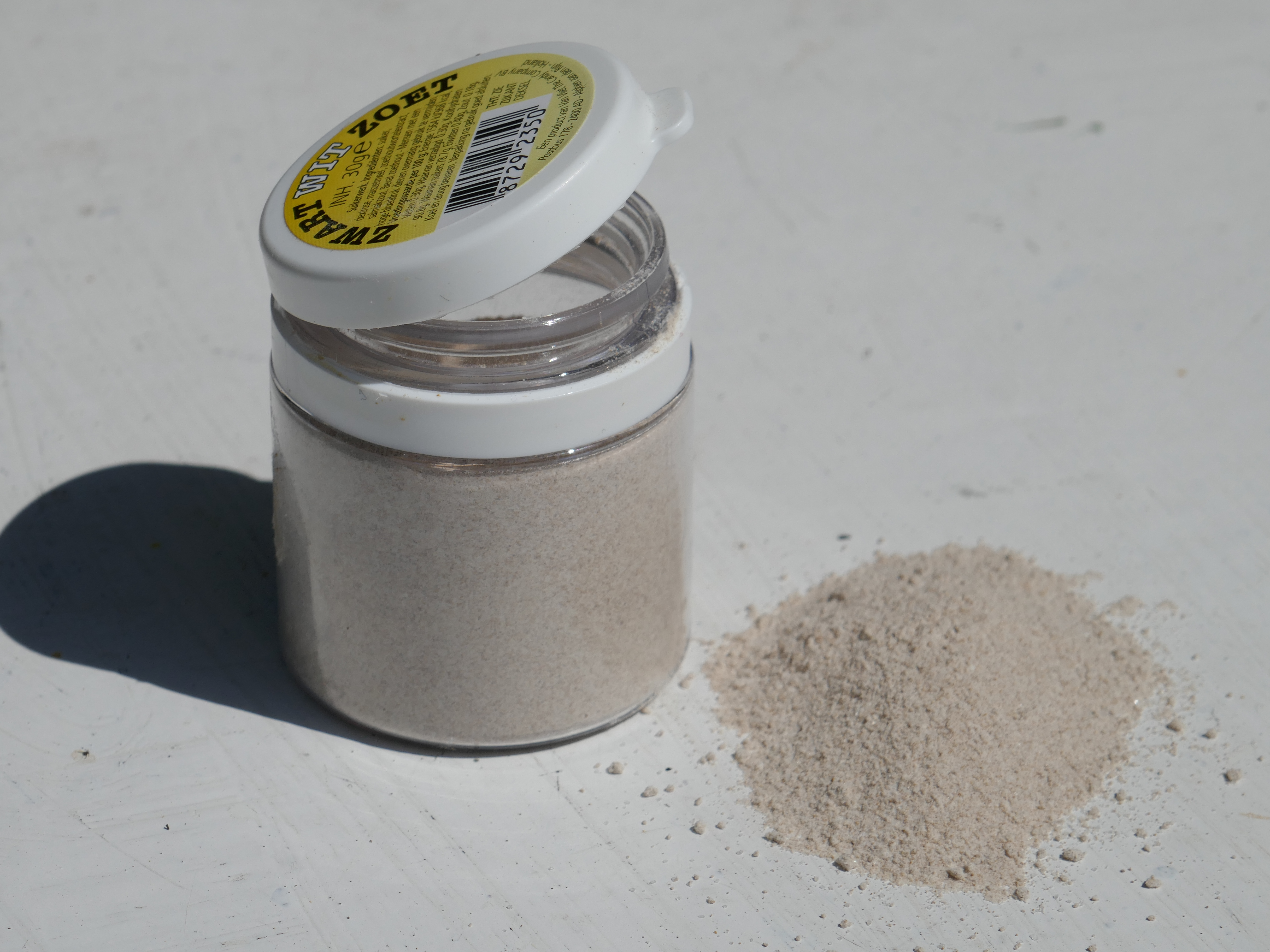 Zwarwit, a Dutch sweet with liquorice powder (extractum glycyrrhizae crudum pulveratum) and salmiak